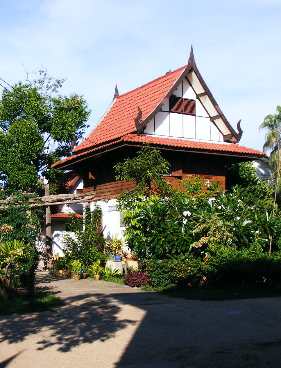 Wat Khung Taphao, Ban Khung Taphao, Khung Taphao subdistrict, Mueang Uttaradit, Uttaradit Province, Thailand.) on December 2, 2008.